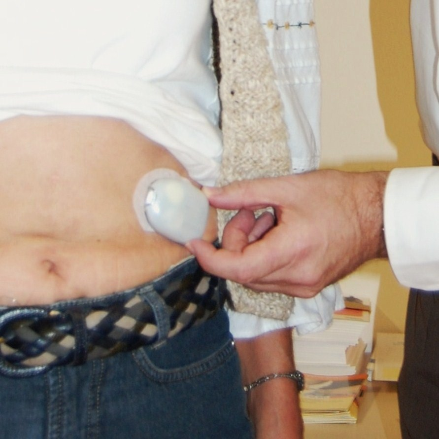 Patch Pump